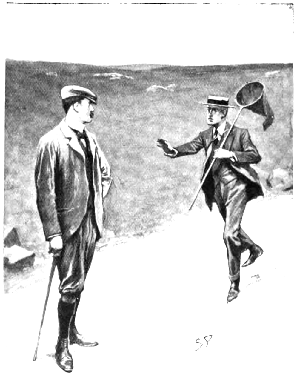 Illustration of the Sherlock Holmes adventure The Hound of the Baskervilles. Illustration appeared in The Strand Magazine in November, 1901. Original caption was "IT WAS A STRANGER PURSUING ME."